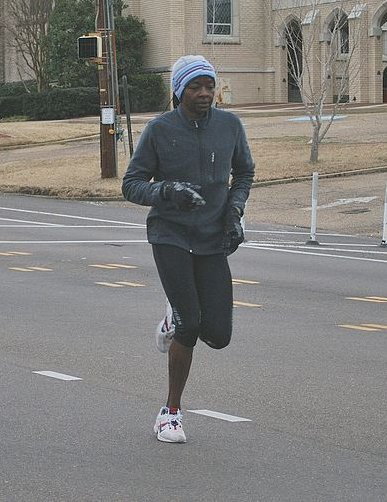 Janet Cherobon-Bawcom runs in the Mississippi Blues Marathon January 9, 2010.